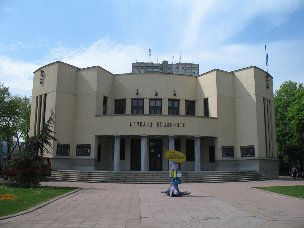 National Theatre in Niš, Serbia.